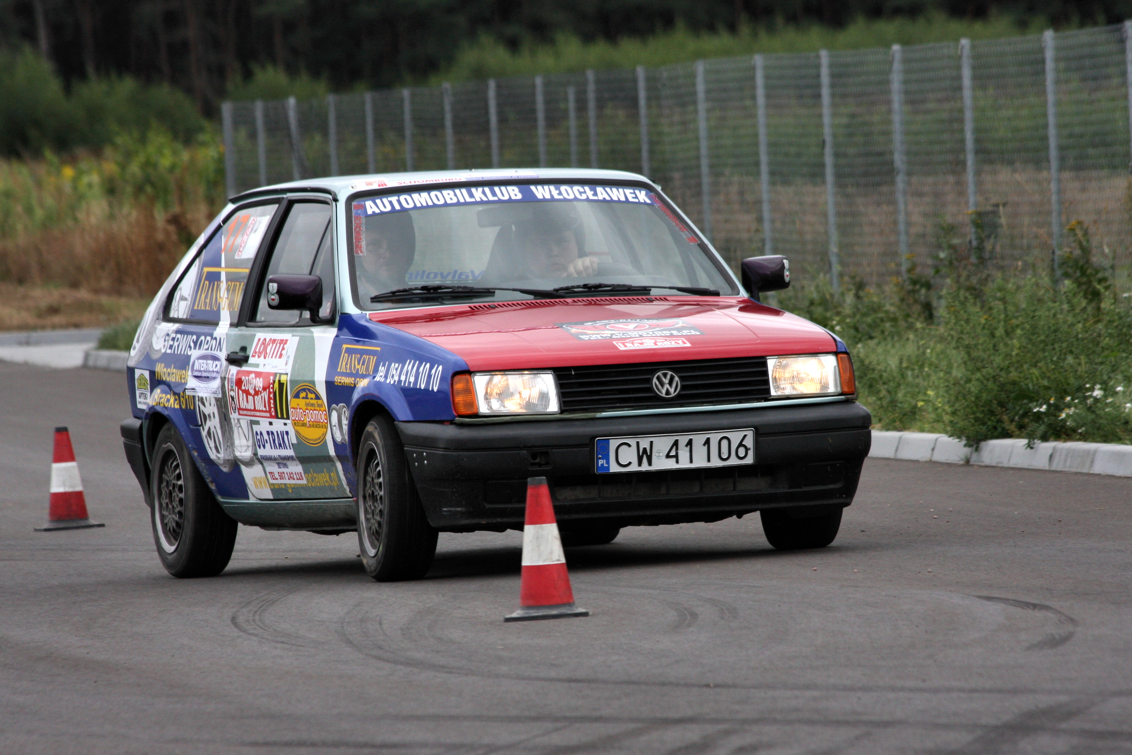 Rally of the Rose in Kutno during The Rose Festival in 2009.